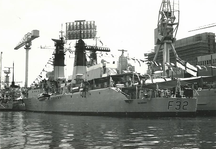 "Cathedral" or "Salisbury" Class Type 61 Aircraft Direction Frigate "HMS Salisbury", 2,170 tons, launched 1953, completed 1957, at Devonport Dockyard, Plymouth Navy Day, 08/77. Scanned photograph taken with a Kowa SET.